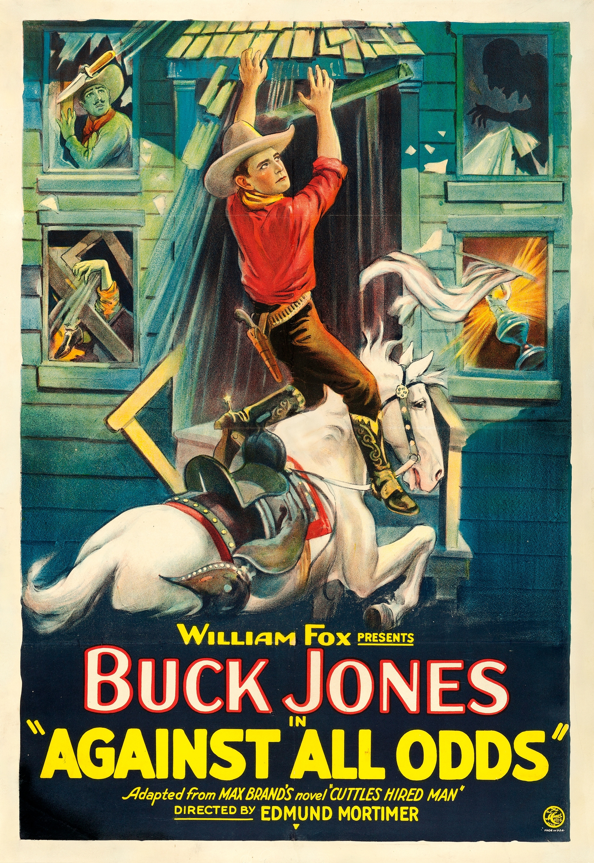 This is a poster for the 1924 American silent western film Against All Odds.